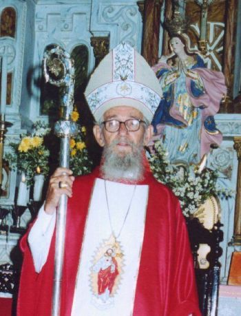 I don't do art for a living, neither for personal nor professional propaganda. I don't make any drawings for money. Thanks.